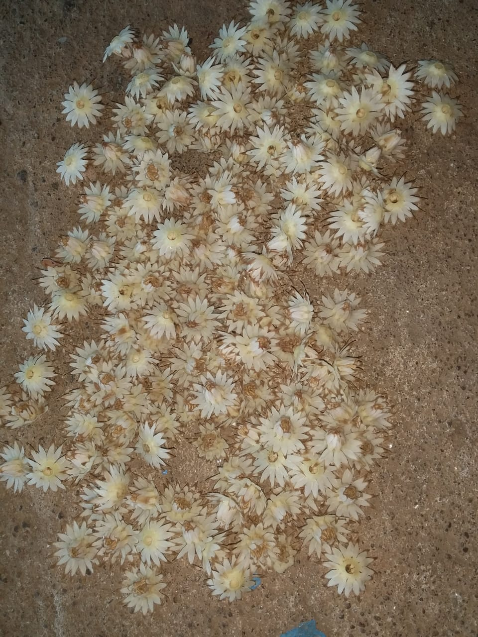 Spanish cherry flowers from India